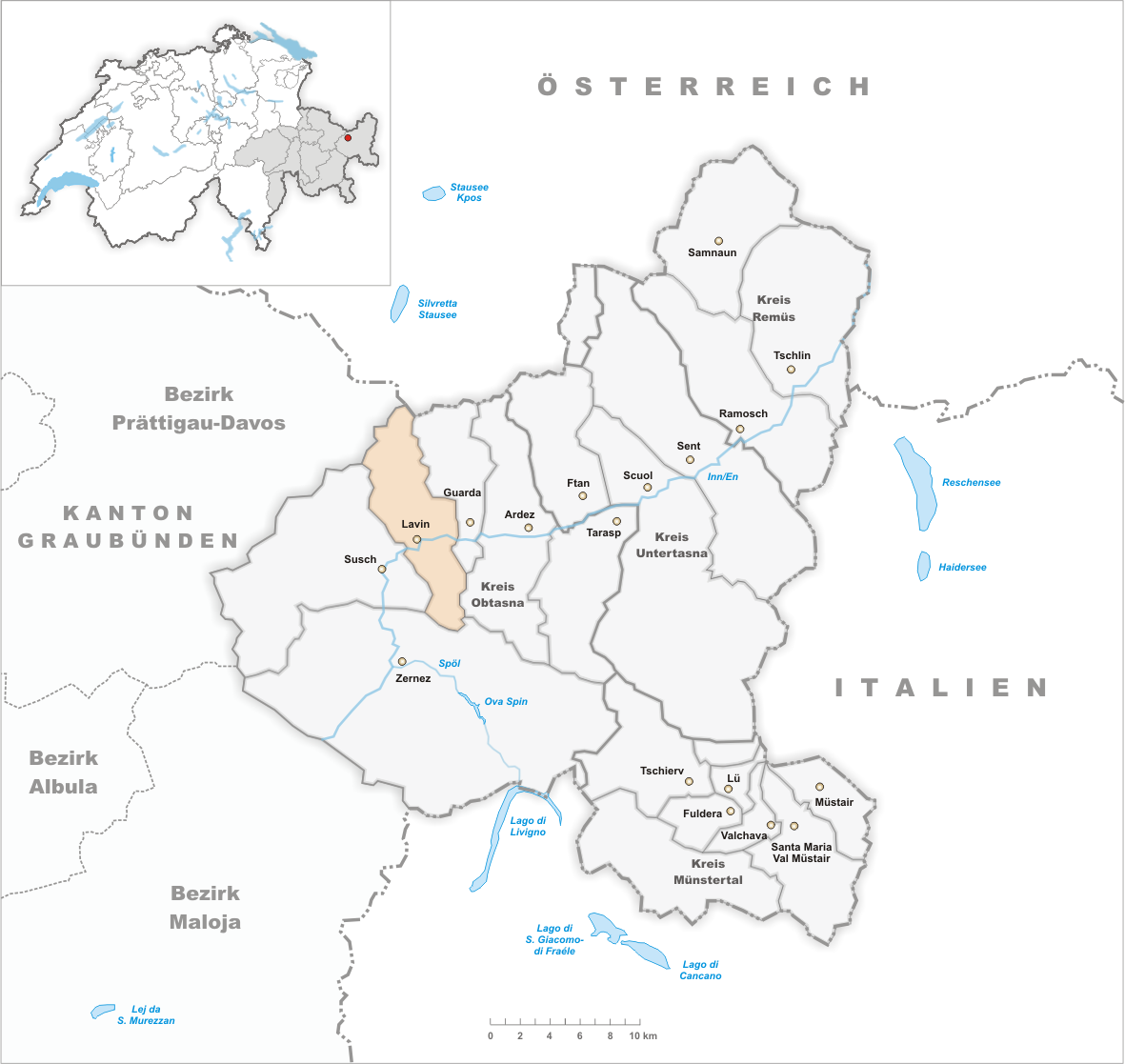 Municipality Lavin